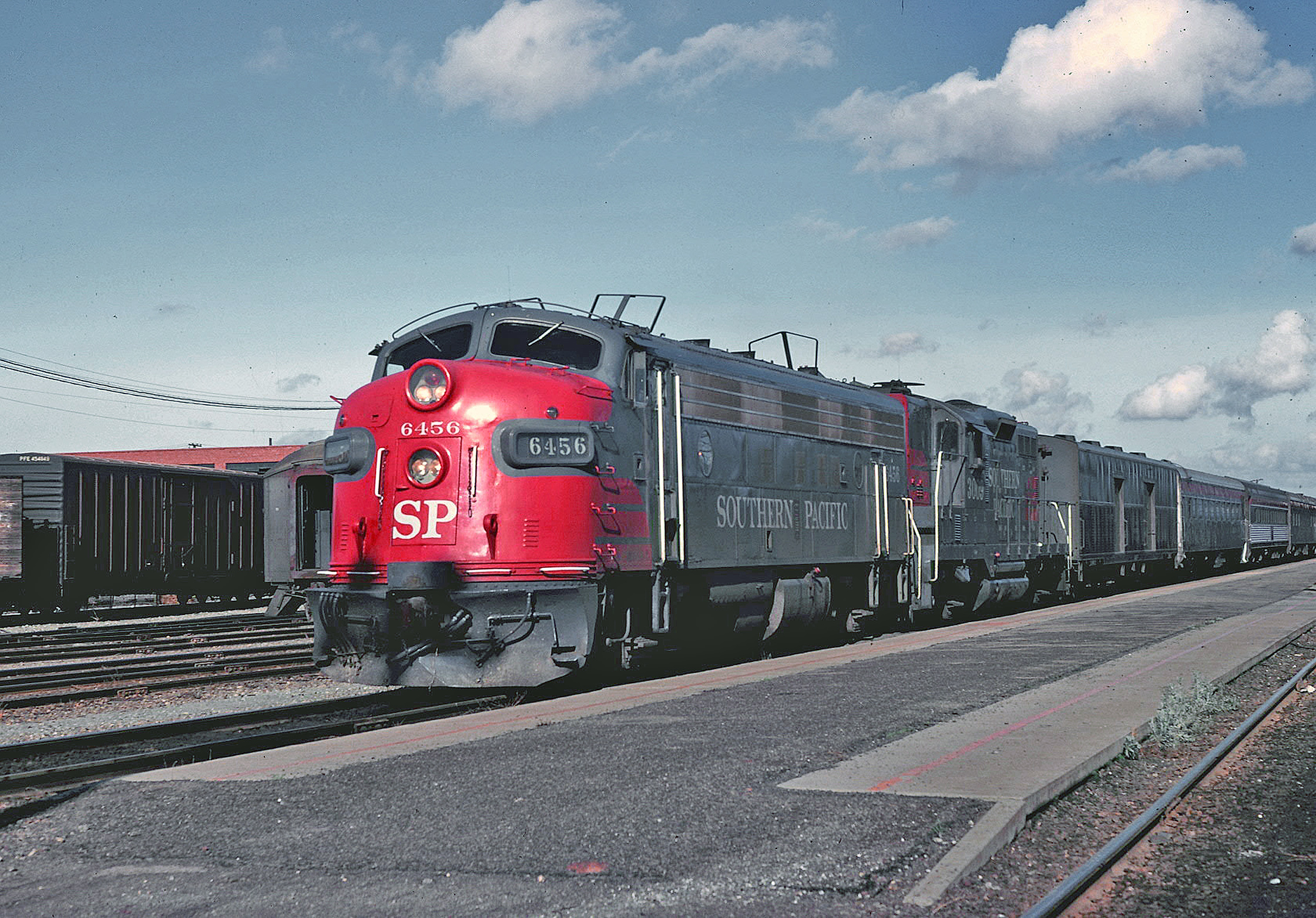 The southbound Coast Daylight at San Jose in January 1970